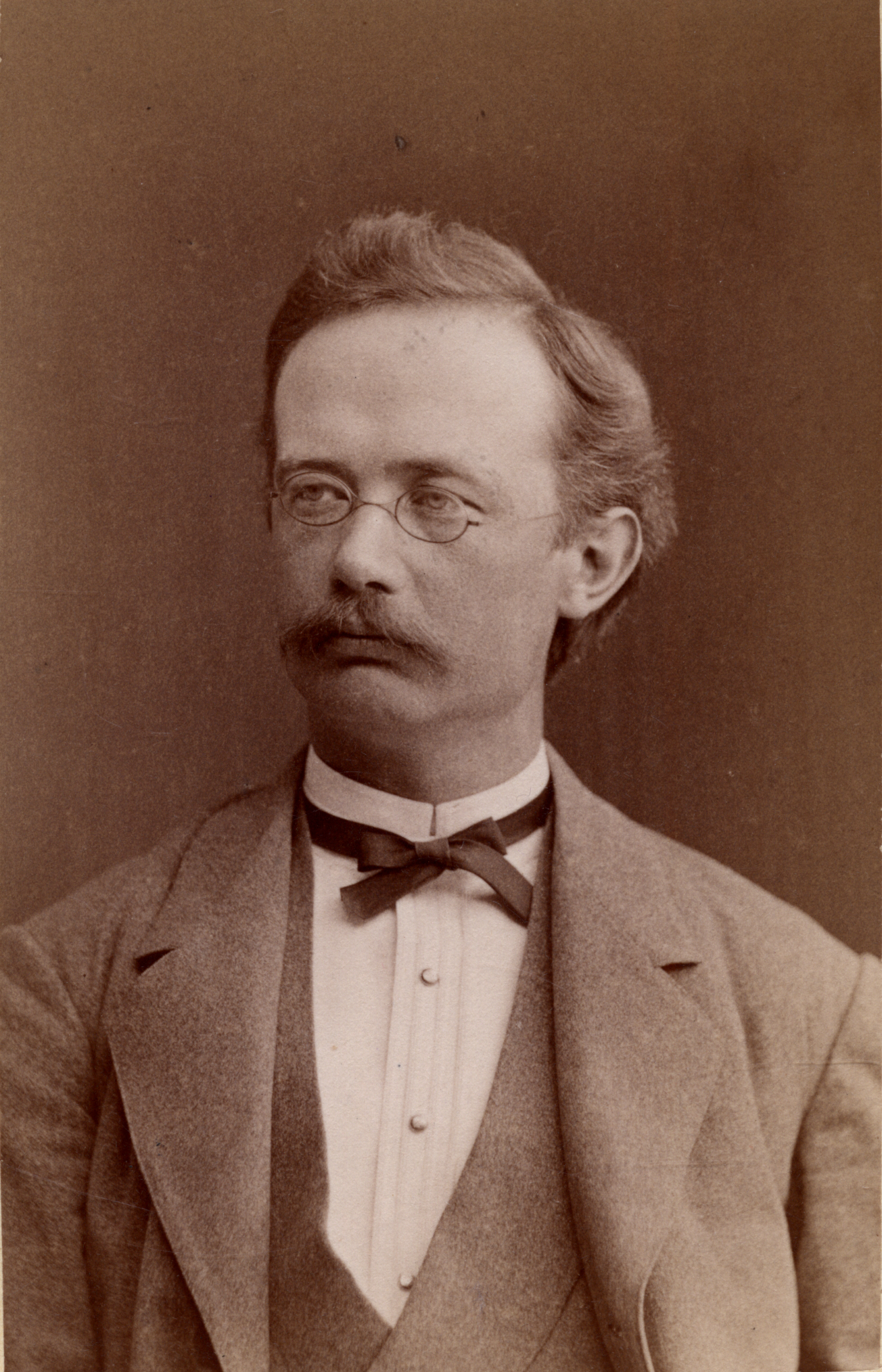 Professor of zoology Tycho Tullberg (1842-1920) in the 1880s.